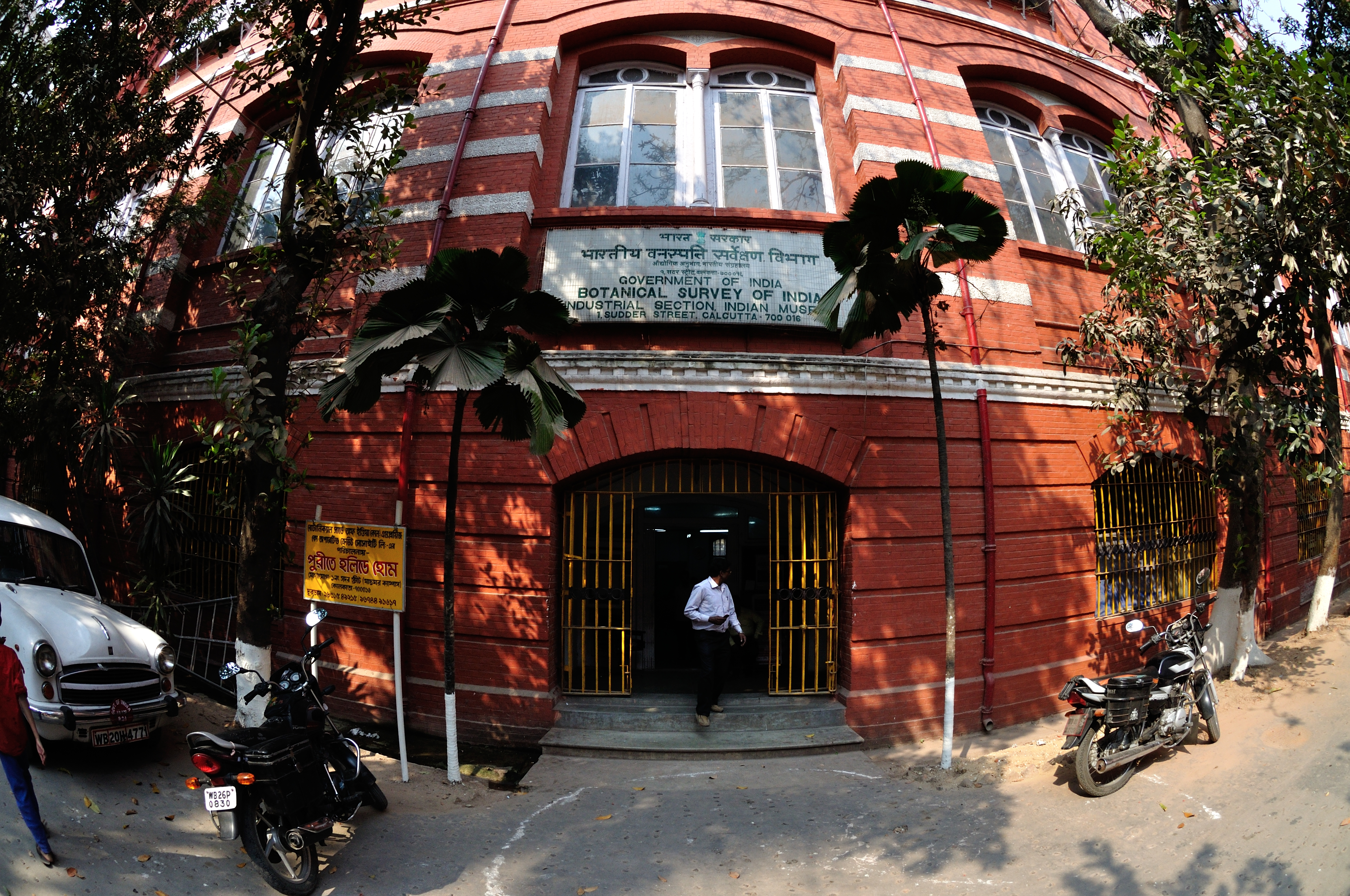 Photographed in Kolkata.